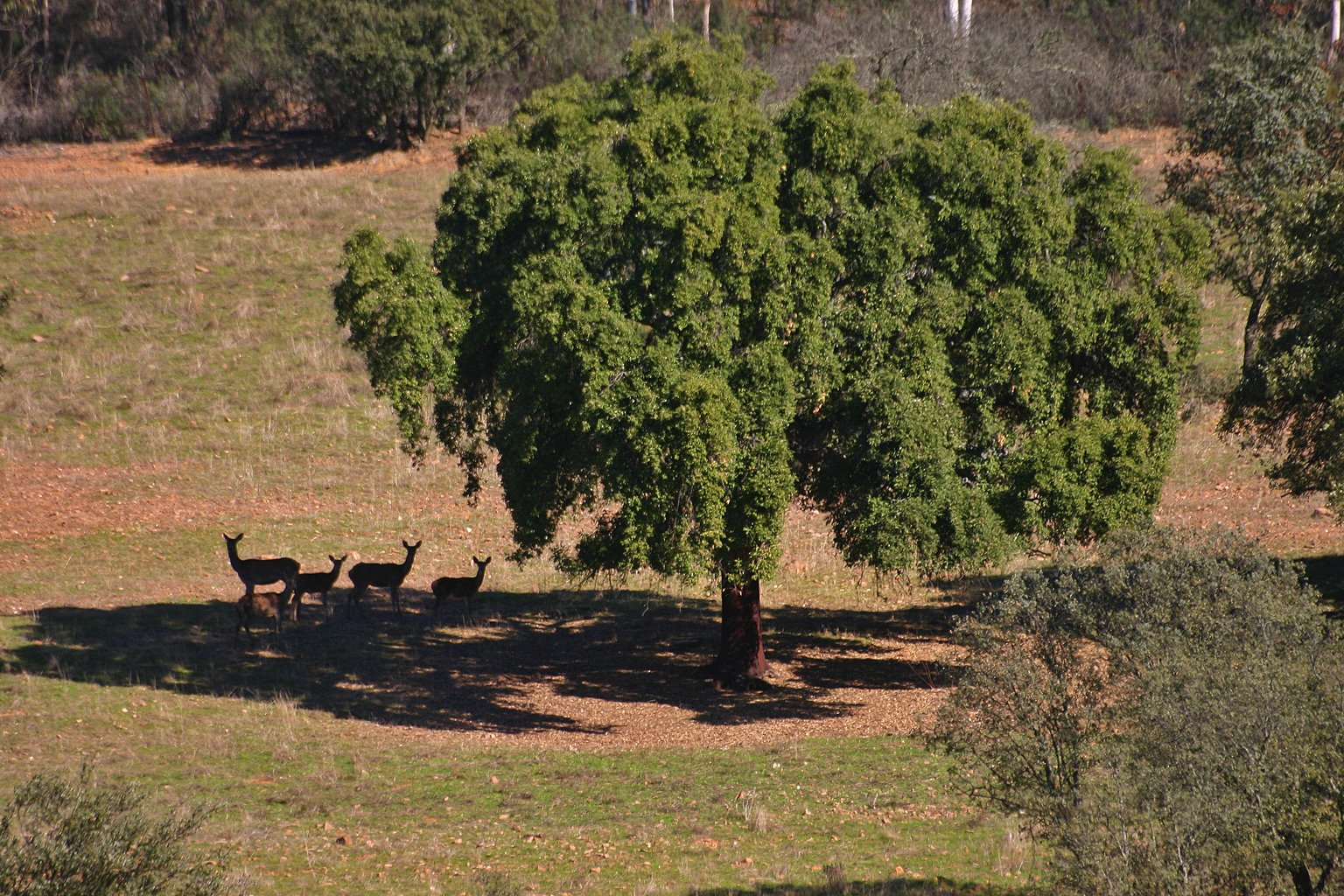 Group of deer and calves under an oak in a pasture Extremadura.